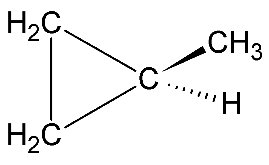 Comments High-resolution black/white .PNG made with ChemSketch and Photoshop — see WikiProject Chemistry - structure drawing for detailed instructions. Please drop me a note if you need the source file. Category:Chemical structures (Original text: Chemical structure of Alkyl cycloalkane)